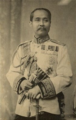 King Chulalongkorn in the uniform of a Field Marshal